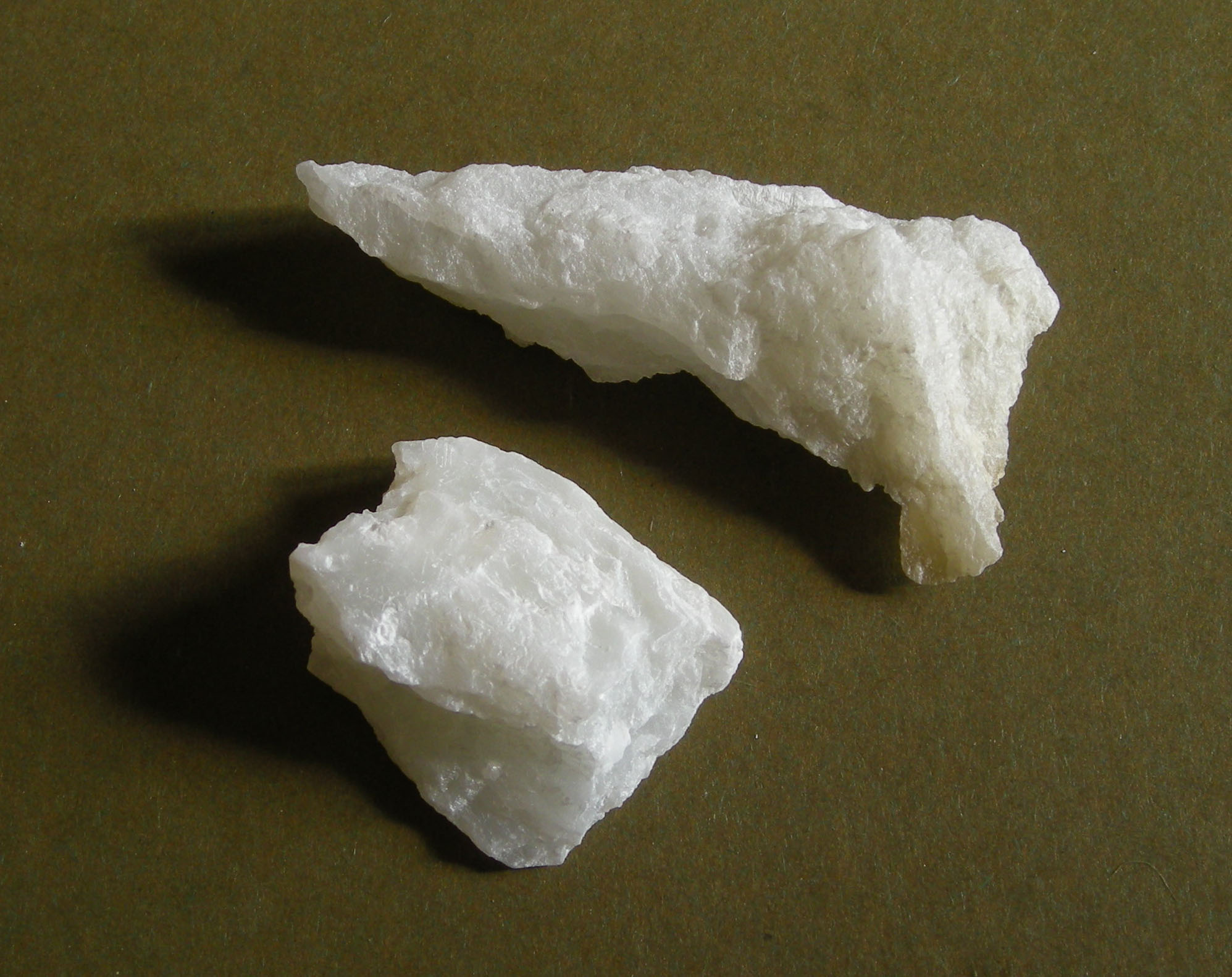 Talc from Luzenac (Ariège)